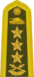 Czechoslovak Colonel general shoulder insignia (1960-1992).